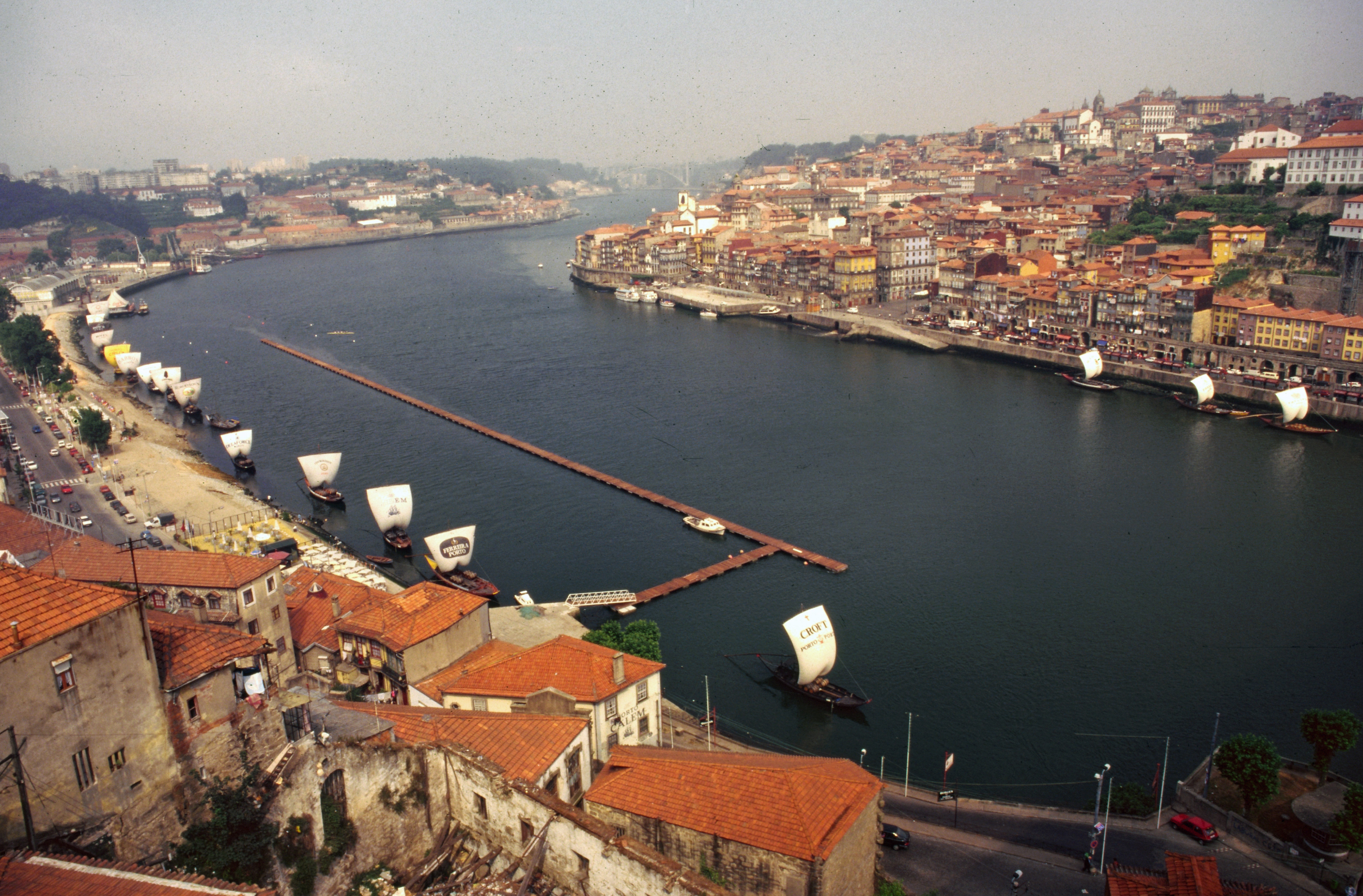 Douro river lined with boats promoting various port wine brands in central Porto, Portugal, July 1994.